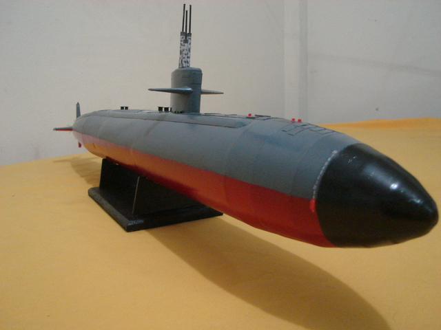 Los Angeles class nuclear submarine on paper at 1 / 144